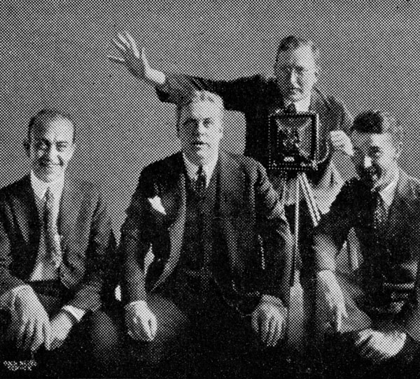 The Peerless Quartet (known as the Columbia Quartet prior to 1908). From left to right; John H. Meyer, Henry Burr, Frank Croxton, Albert Campbell.